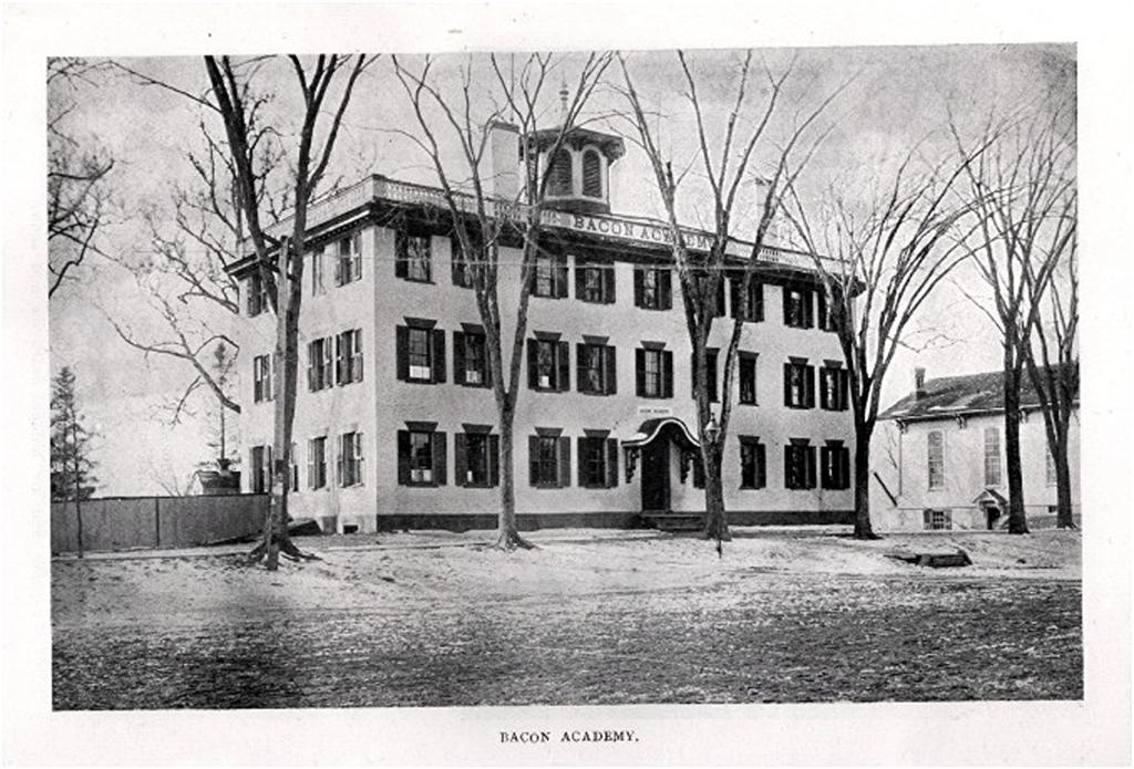 Photograph: Bacon Academy in Colchester from an 1896 article in Connecticut Magazine. Description: From the April, May, June 1896 edition (Volume 2, Number 2) of The Connecticut Quarterly From store Web page: "18 PAGE ARTICLE WITH 5 PHOTOGRAPHS OF THE ACADEMY AND 16 PHOTOGRAPHS OF PROMINENT INDIVIDUALS removed from the 1896 Connecticut Magazine and is entitled, "BACON ACADEMY - ITS FOUNDER AND SOME ACCOUNT OF ITS SERVICE" by ISRAEL FOOTE LOOMIS; eBay store Web pages also includes a page showing the front page of this edition of the magazine which states article on the Bacon School is contained in it. Date and volume/number of magazine clearly visible. Magazine states that it is published in Hartford, Connecticut